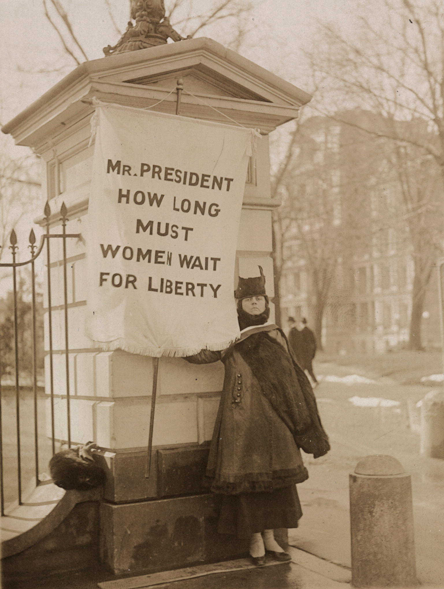 Photograph of Alison Turnbull Hopkins with banner, "Mr. President How long must women wait for liberty," picketing for suffrage outside White House gate.